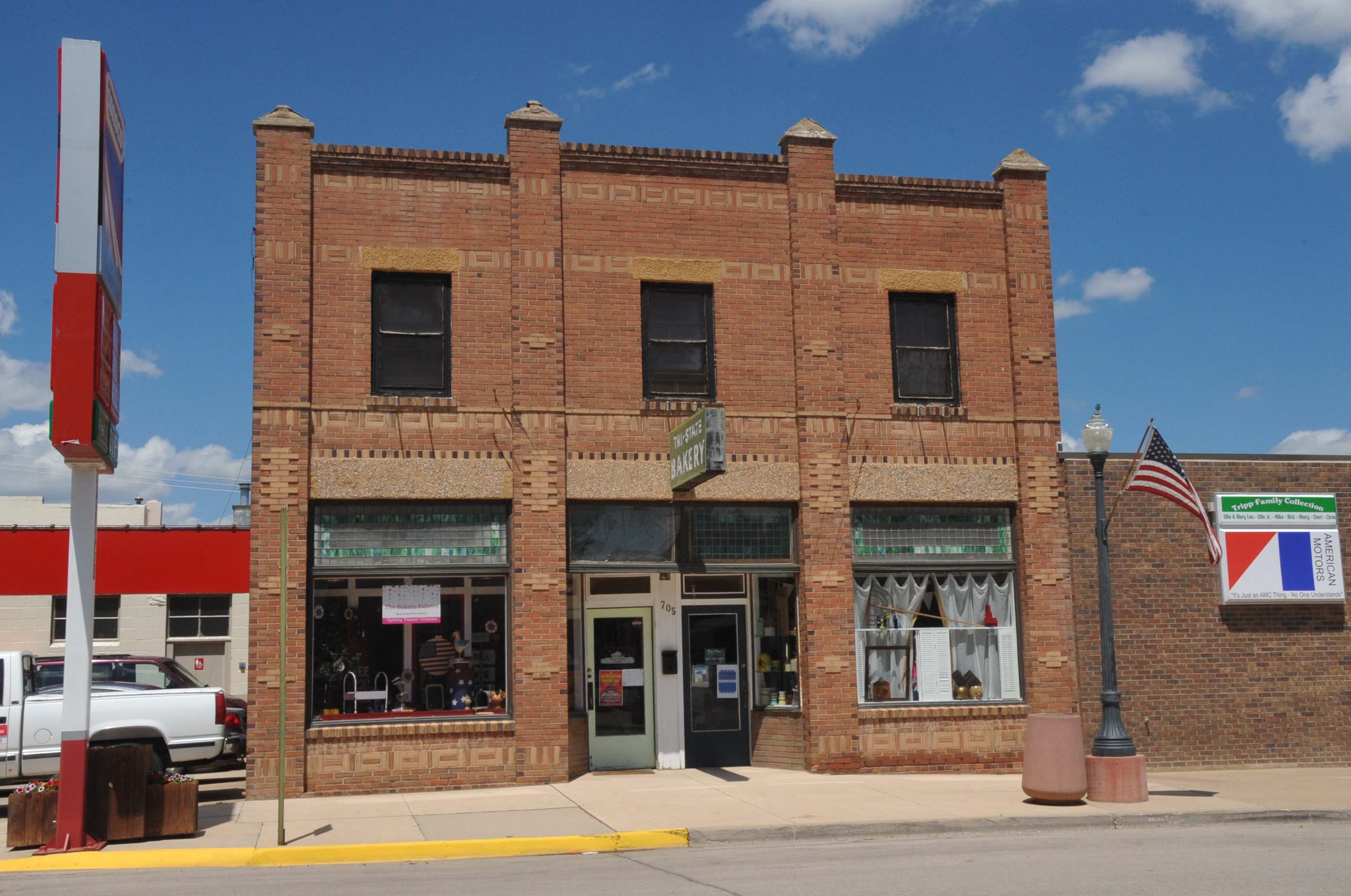 CIRCA 1927 BRICK BUILDING